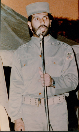 Hasan Aghareb Parast speech in Iran-Iraq war.